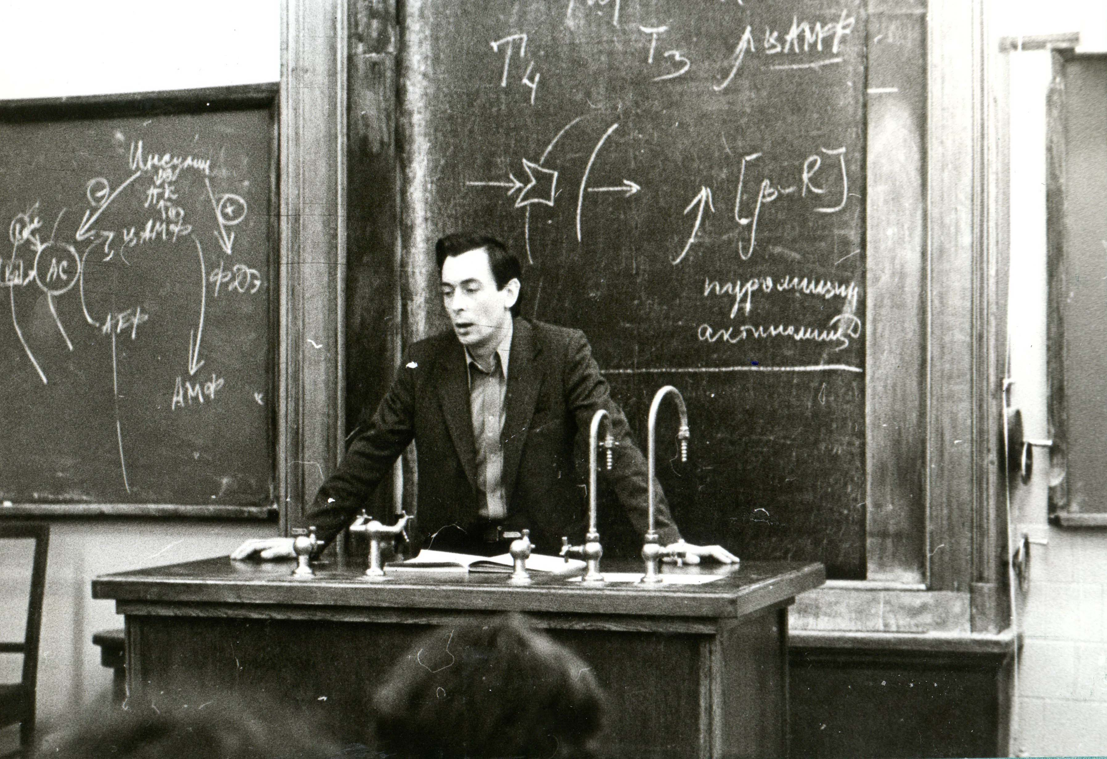 Prof. Vsevolod Tkachuk during a lecture in Molecular endocrinology